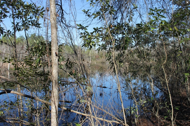 Located in Orangeburg County, South Carolina